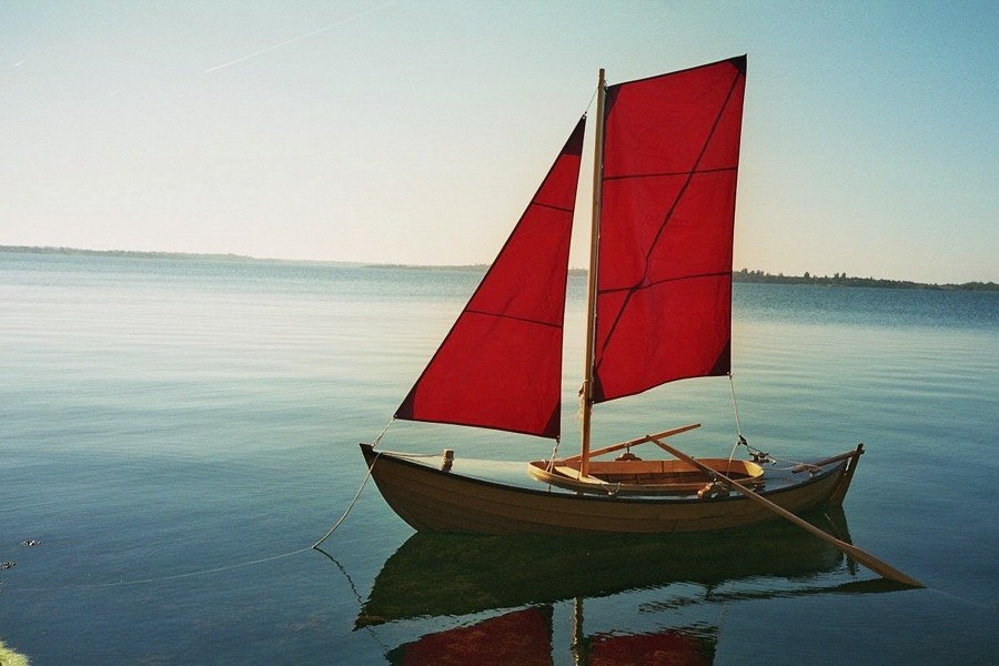 Spritsail on a typical boat called (jaktkanot) from the archipelag of south-east Sweden. Sprietsegel an einer typischer Boot aus dem schären Süd-Ost in Schweden.